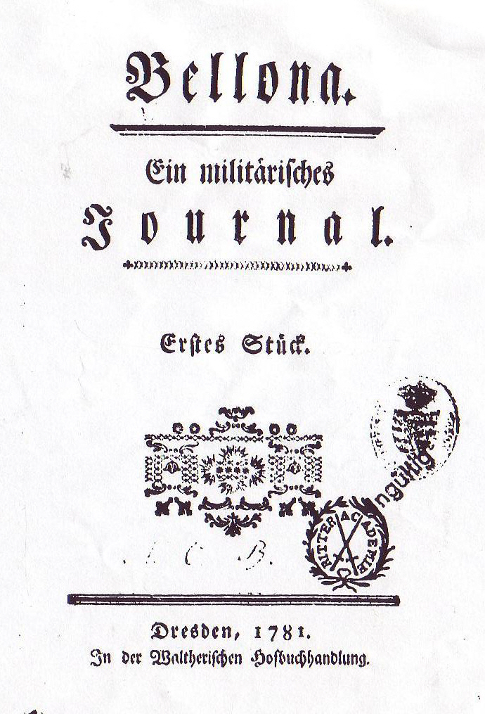 Cover of the German Military Magazine "Bellona"